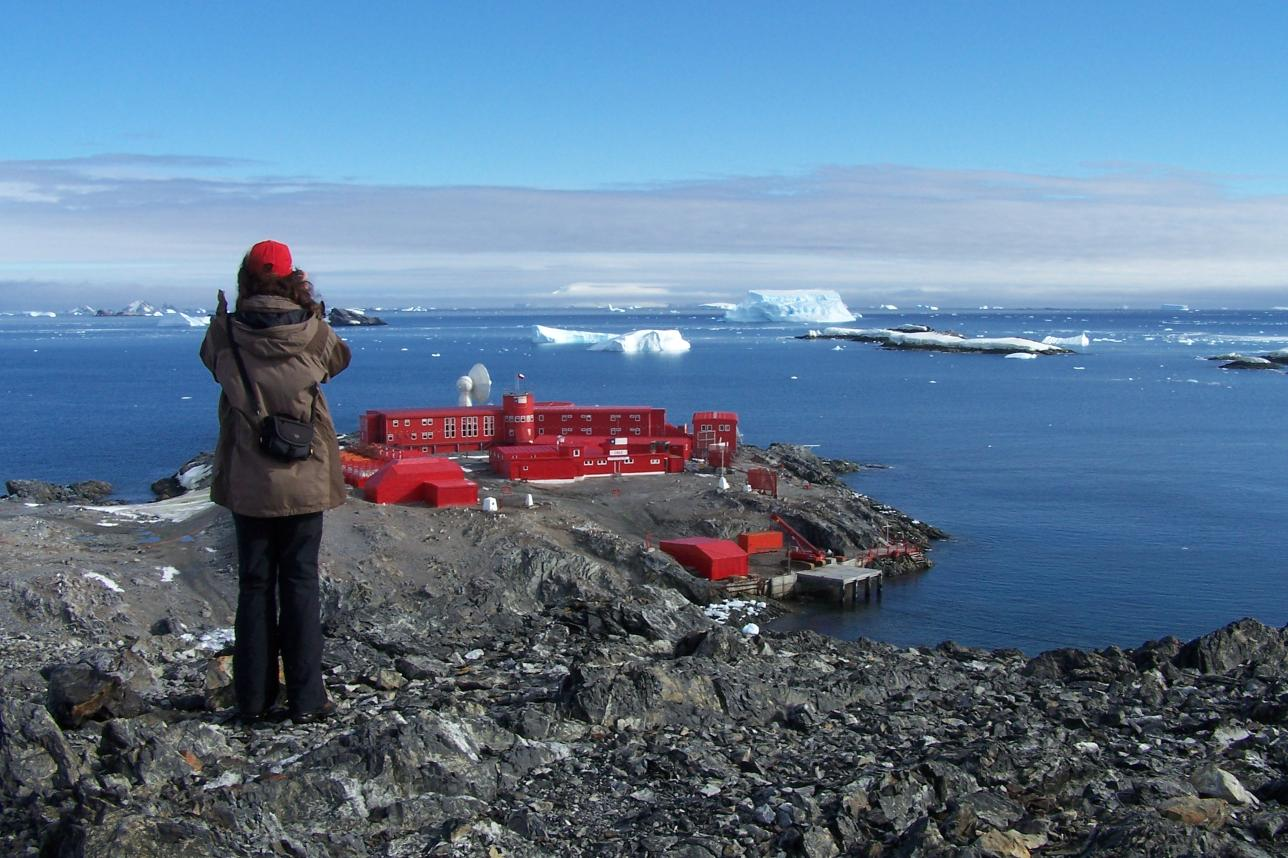 On the mainland, in front the chilenean base Bernardo O'Higgins Station.